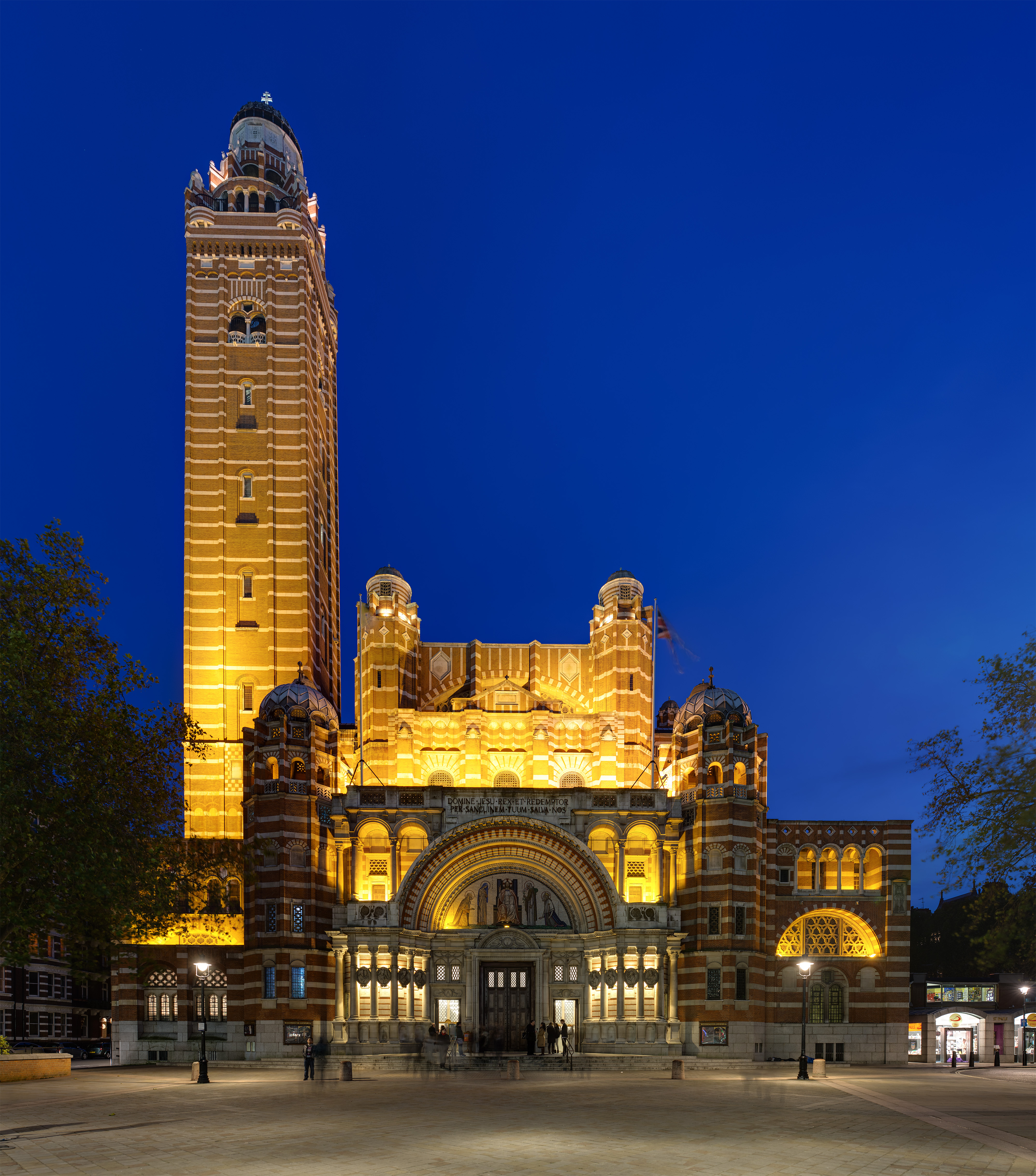 Westminster Cathedral as dusk, perspective correctived for verticals. (Not to be confused with Westminster Abbey)